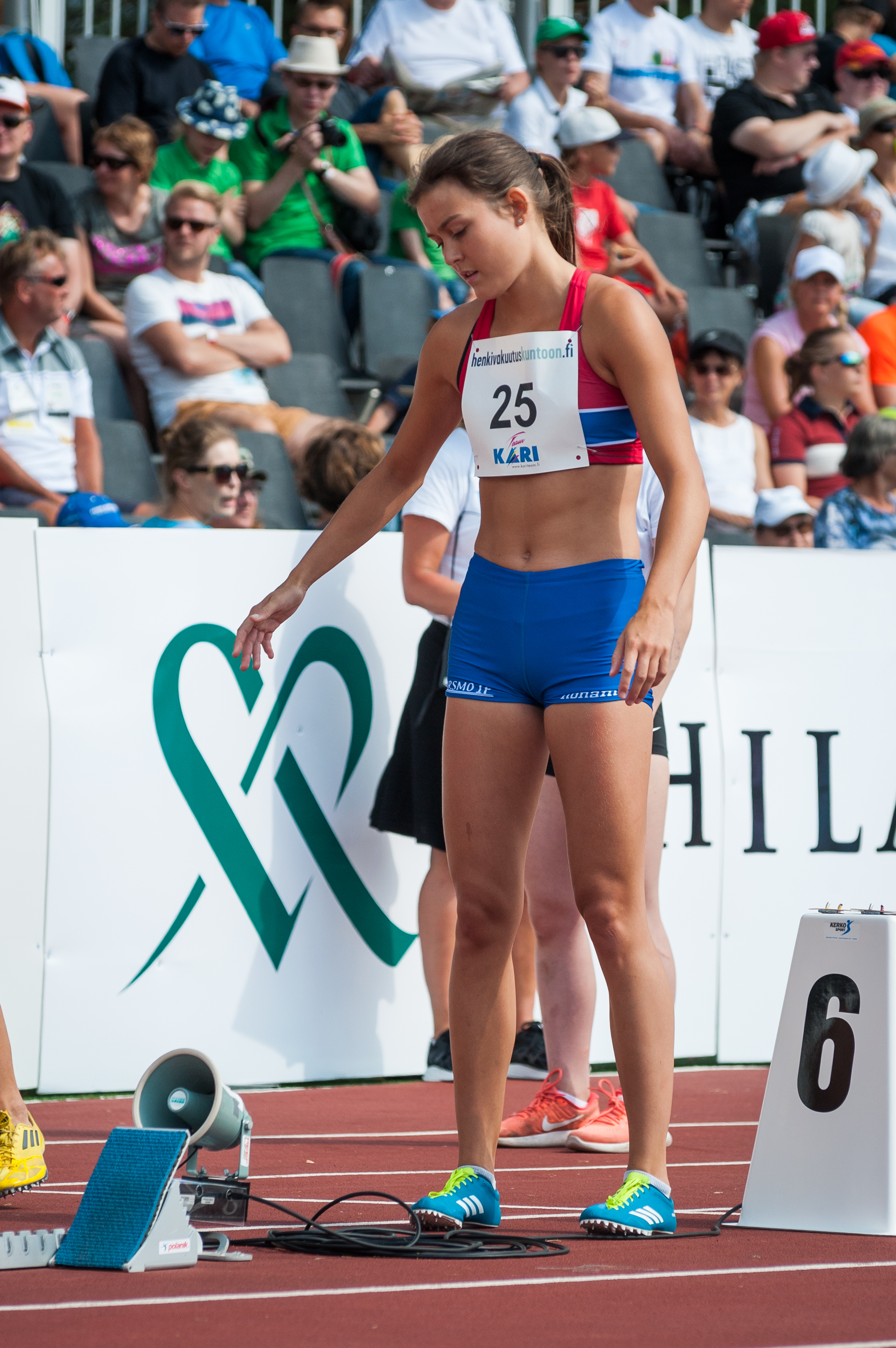 Women's 200 m competition at the 2018 Kalevan Kisat, the Finnish championships in athletics, in Jyväskylä, Finland.